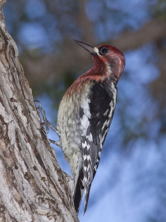 A Red-breasted Sapsucker in El Chorro Regional Park, San Luis Obispo County, California, USA.